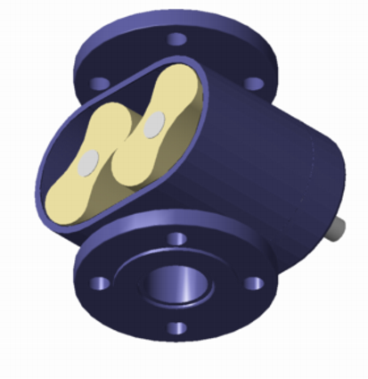 Schematic view of an open rotary lobe (roots type) compressor) Author : R. Castelnuovo (myself) 2005 10 20